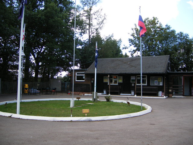 Chalfont Heights Scout Camp. administration block & shop